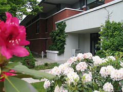 Newport Public Library, RI - Outside of building